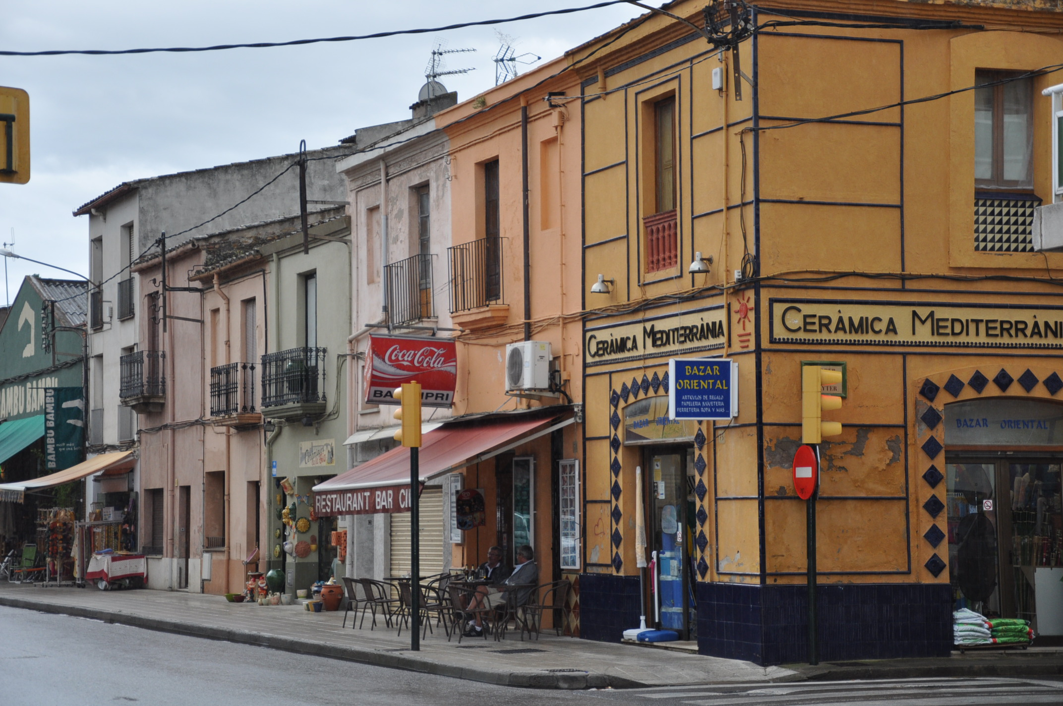 Carrer de l’Aigüeta (Aigüeta Street) in La Bisbal d'Empordà (Baix Empordà, Catalonia, Spain).